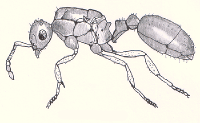 A drawing by Halvard from Norway.